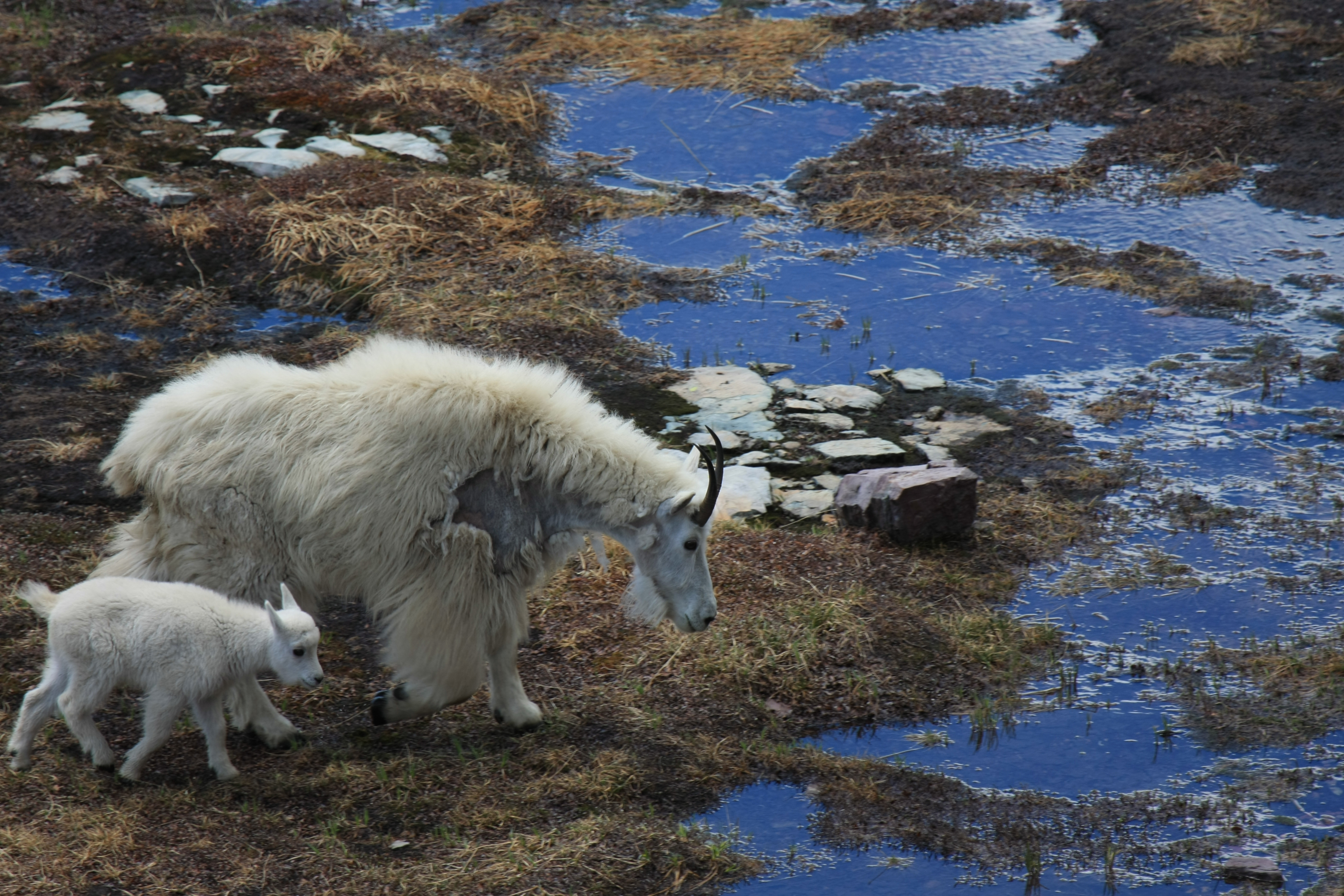 Newborn baby goat following old mountain goat (Oreamnos americanus) to cross a puddle. Taken from Hidden Lake view point, Hidden Lake Nature Trail, Logan Pass, Glacier National Park, USA.